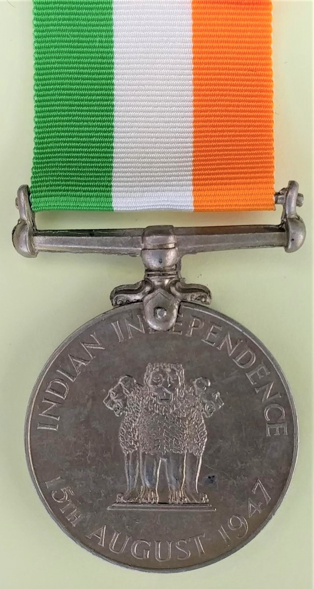 Indian medal awarded to commemorate independence in 1947. Named toː 21478 Sep. Basant Singh, Grs